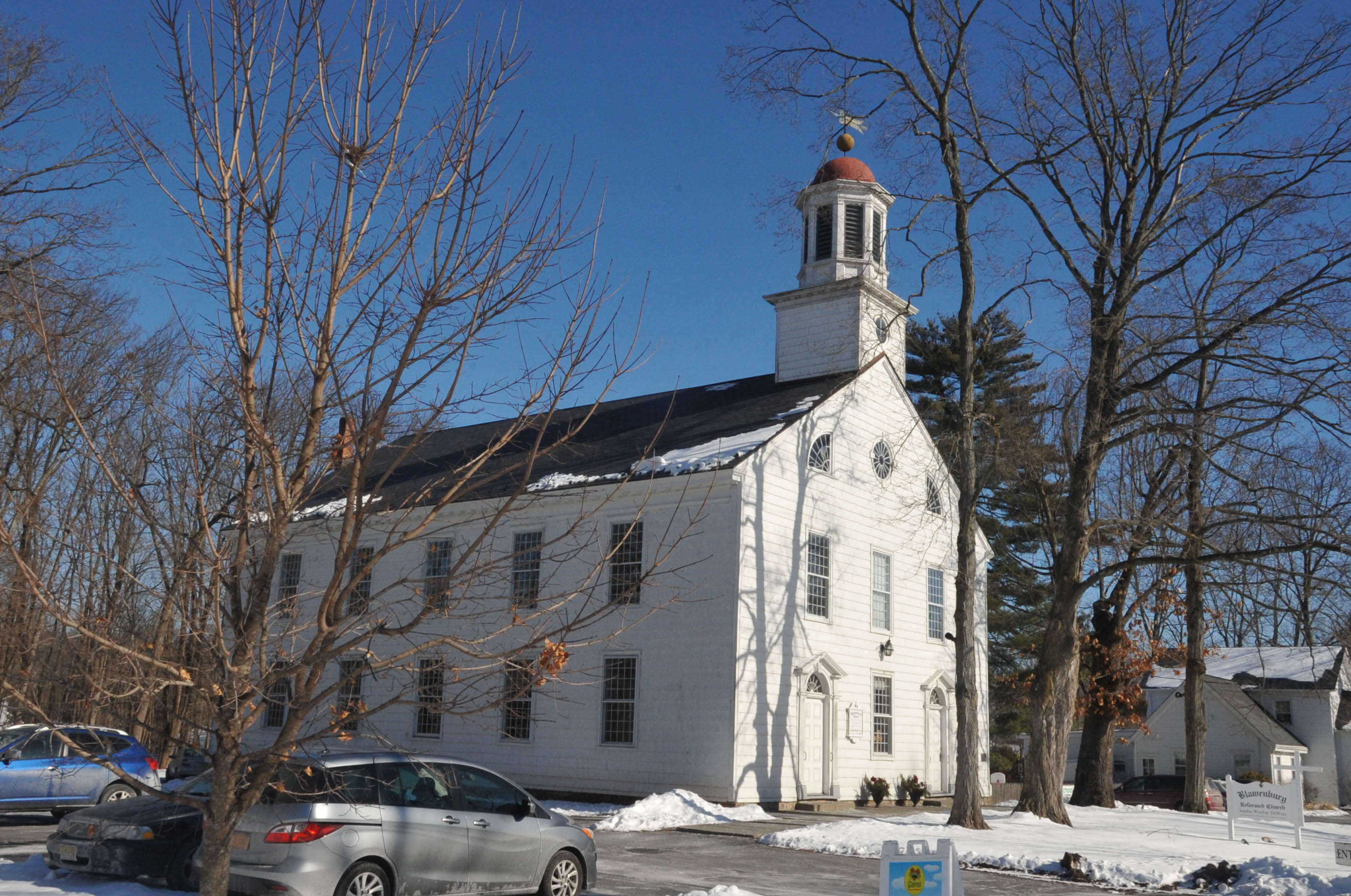 BUILT IN 1831 AS AN EXAMPLE OF LATE GEORGIAN EARLY FEDERAL ARCHITECTURE